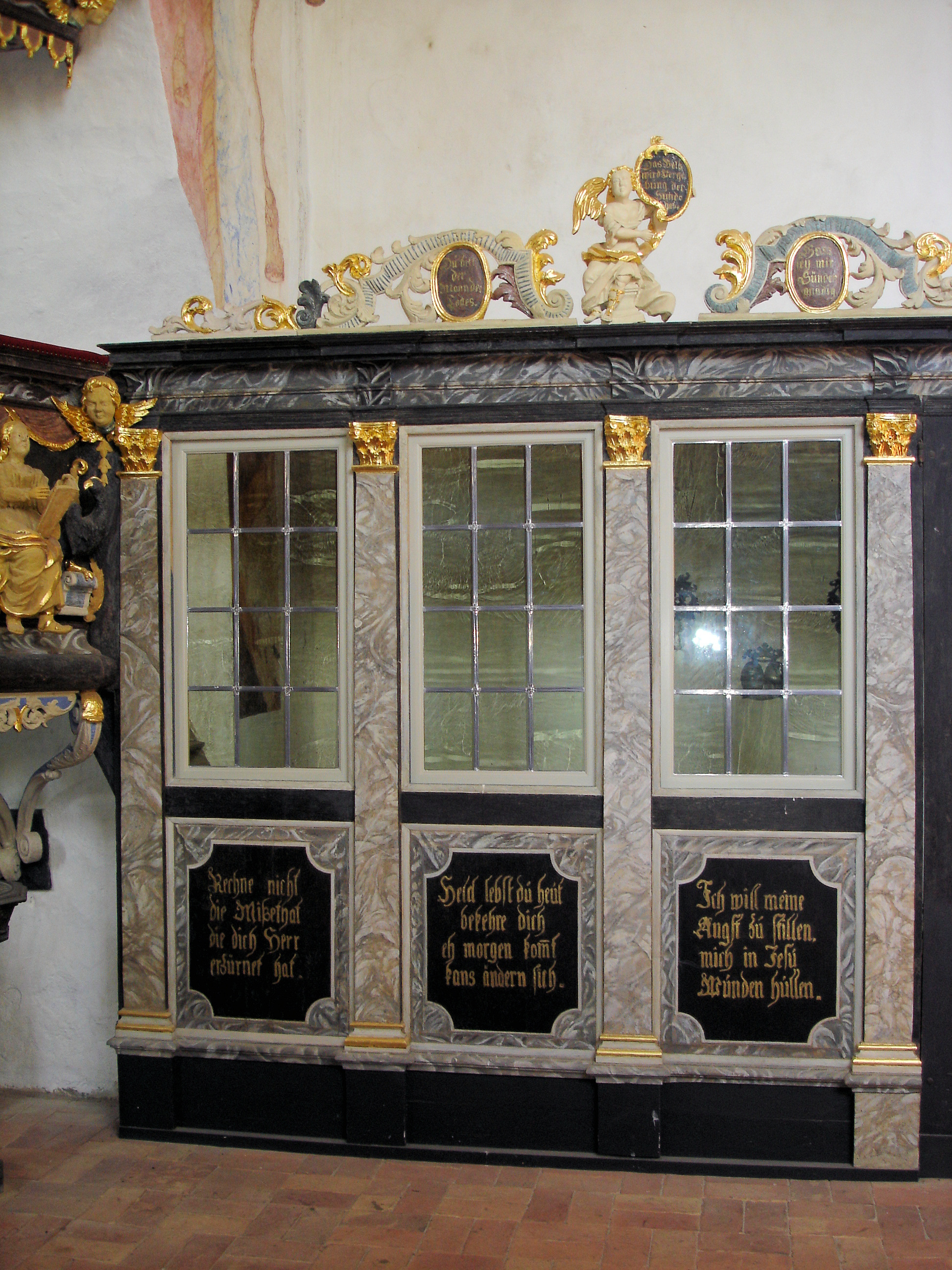 Church Tribohm, Mecklenburg-Vorpommern, Germany